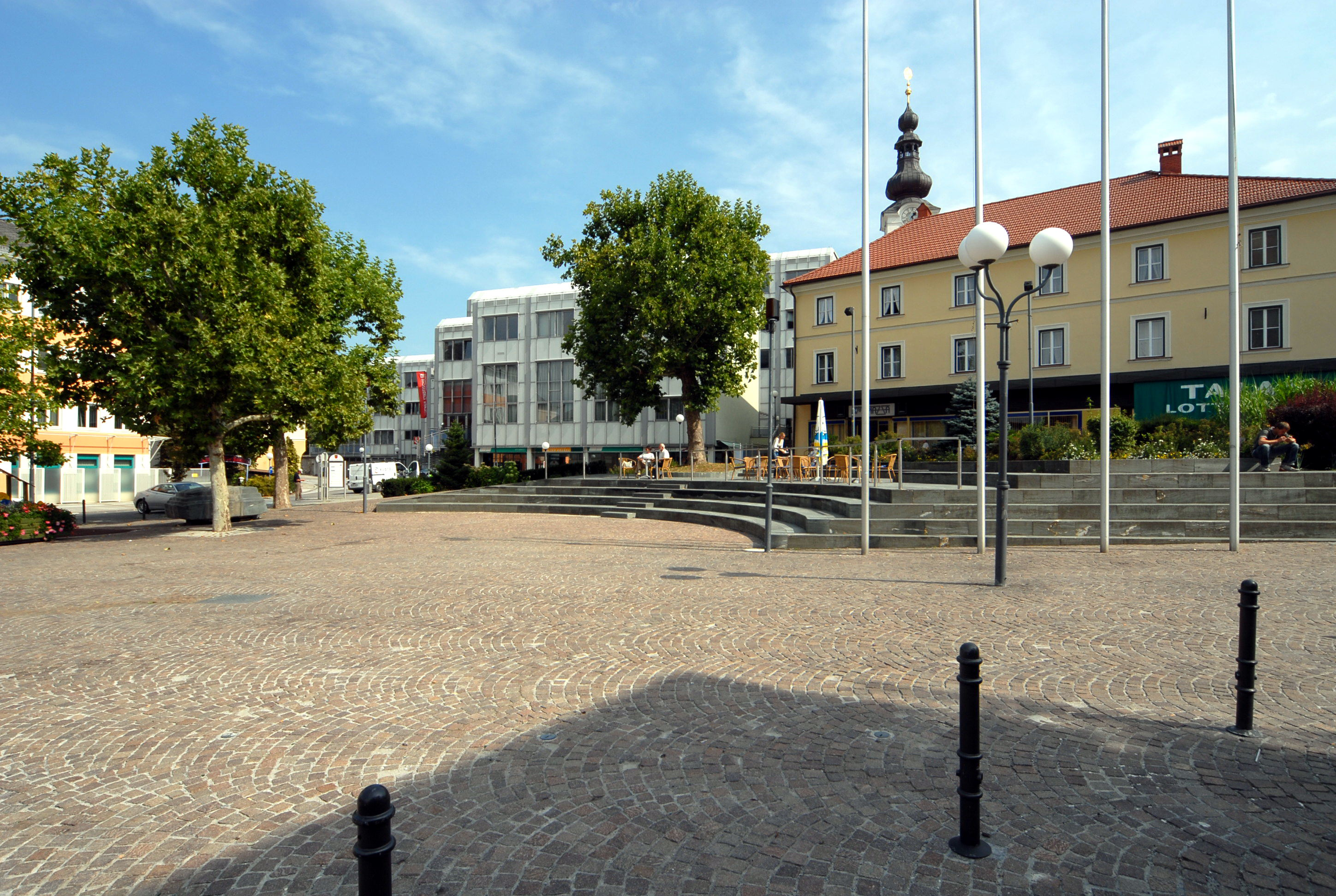 Main square, municipality Ferlach, district Klagenfurt Land, Carinthia, Austria, EU